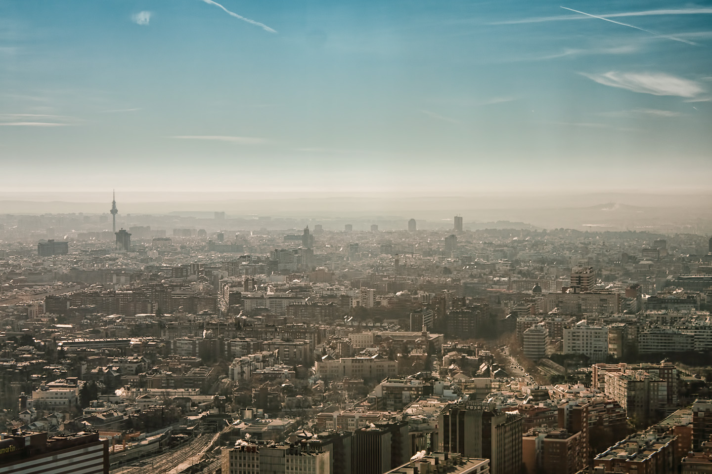 View of Madrid (Spain) from Torre Espacio (a skyscraper).